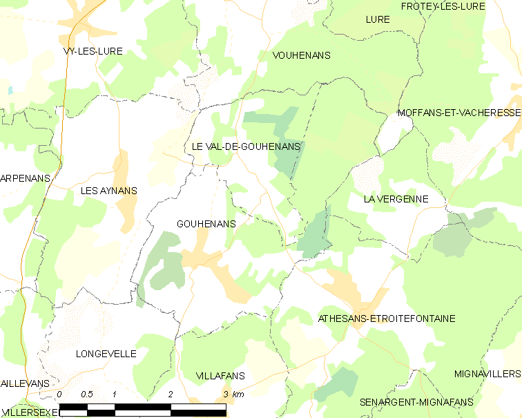 Map of French municipality